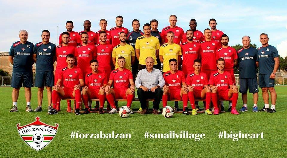 Balzan FC First Team